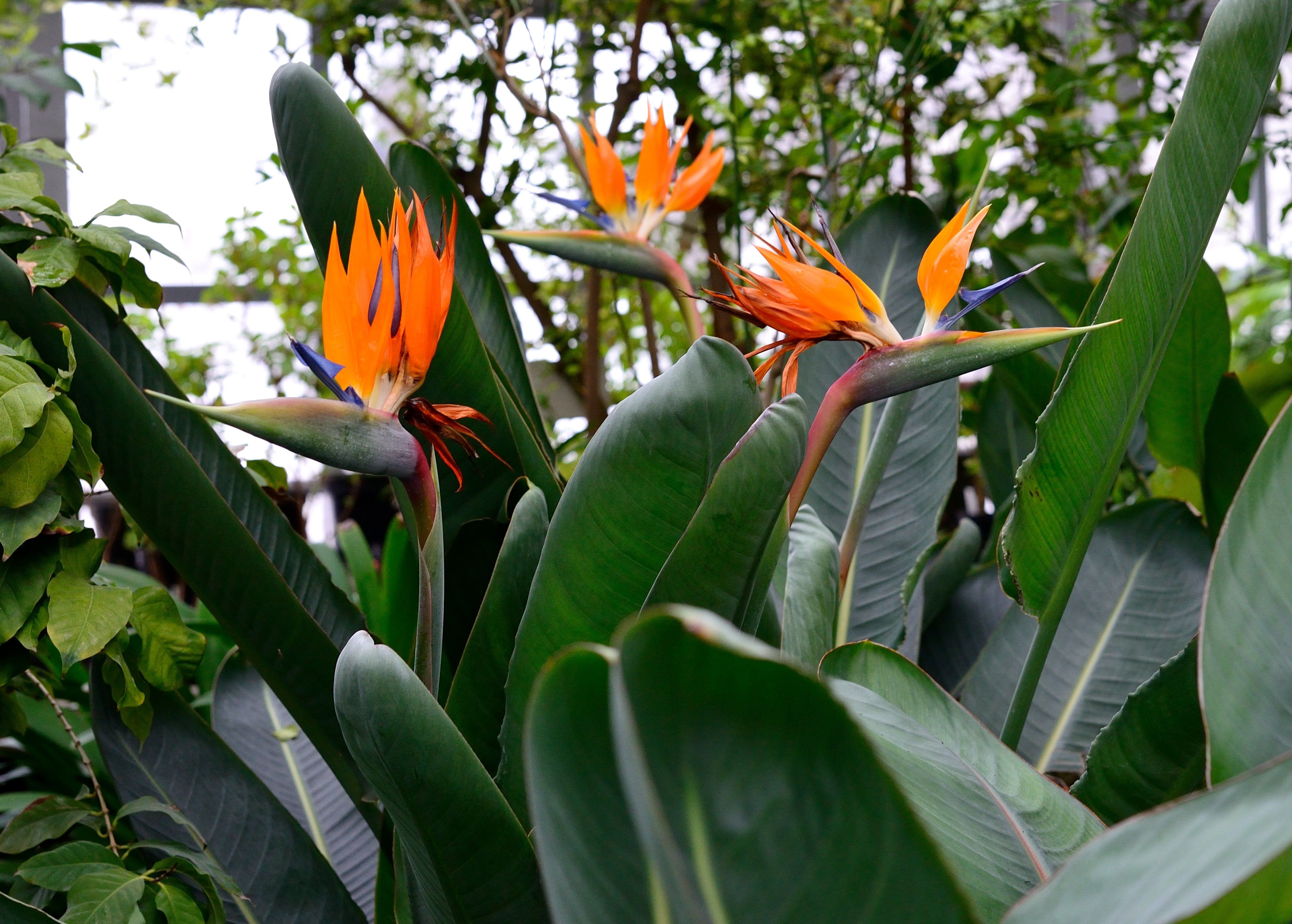 Flower bird of Paradise - Strelitzia Royal